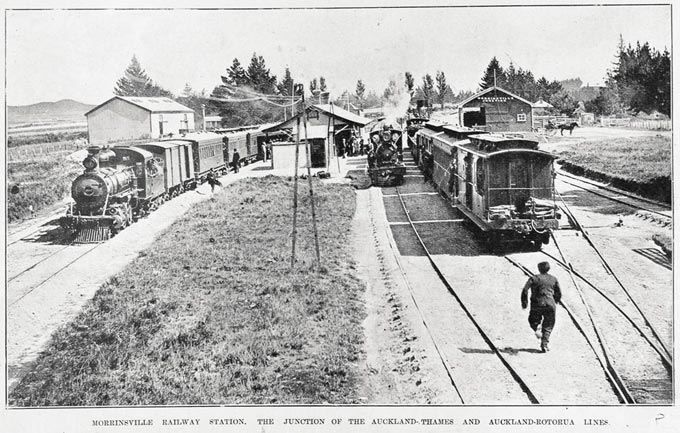 Morrinsville railway station, the junction of the Auckland-Thames and Auckland-Rotorua lines, Waikato Region (N.Z.)